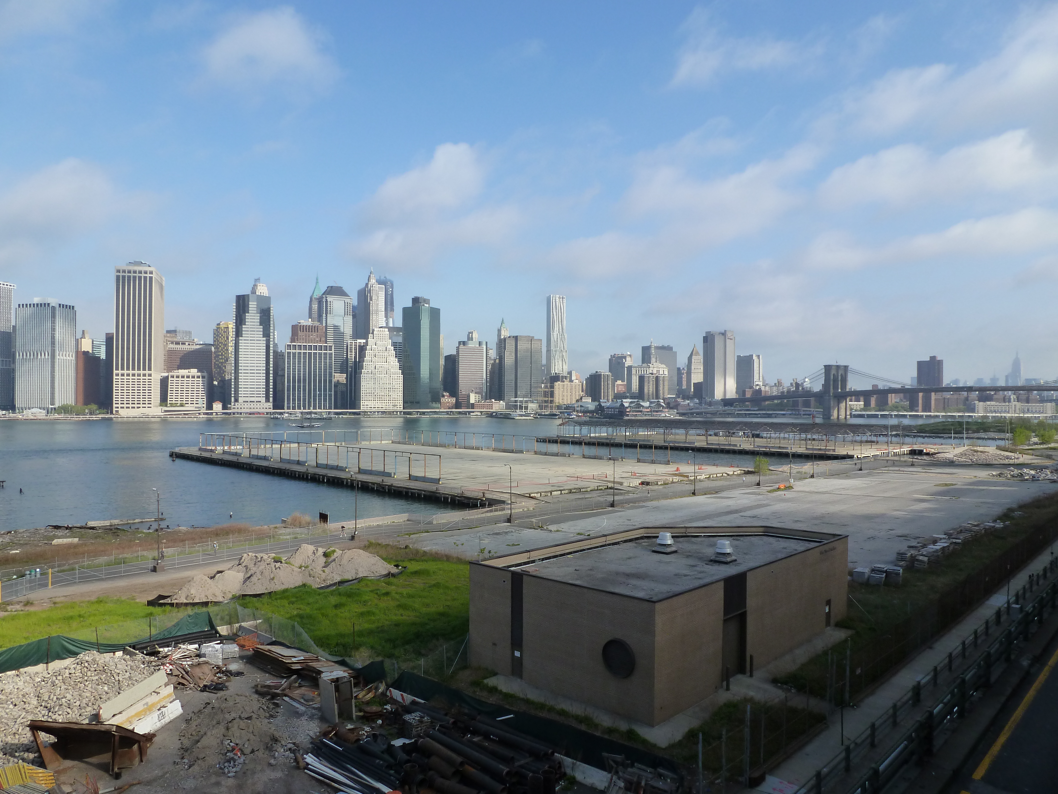 Brooklyn Bridge Park Pier 5 und 6, in the background Manhattan and on the right side the Brooklyn Bridge. Foreground in shadow, subway ventilation building